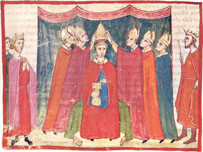 The Coronation of Pope Benedict XI (1303-1304). In this fresco from Santa Maria Novella in Florence, Benedict XI is shown between King Philip IV of France and King Edward I of England.